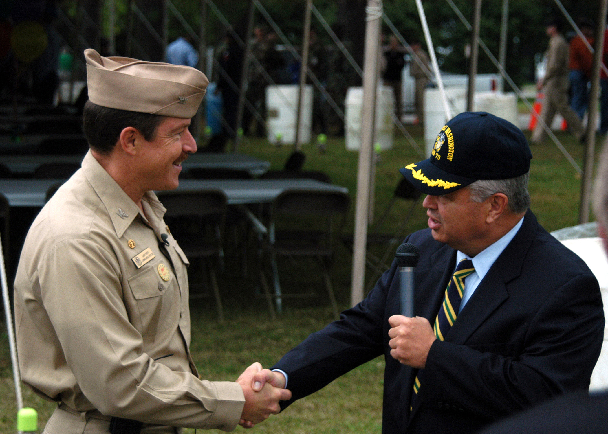 Newport News, Va. (October 21, 2005) - Mayor of Newport News, Joe S. Frank, congratulates Capt. Garry R. White and USS George Washington (CVN 73) crew members for their hard work and help with the community of Newport News. More than 600 George Washington Sailors participated in community relations projects throughout the city of Newport News culminating in the record for most volunteer hours for an individual Navy command in one year. Since the ship’s arrival to Northrop Grumman Newport News shipyard, the ship has contributed over 21,000 hours of community service to the Hampton Roads area. George Washington is currently undergoing Docked Planned Incremental Availability at the Northrop Grumman Newport News Shipyard. U.S. Navy photo by Photographer's Mate Airman Joshua Olson (RELEASED)